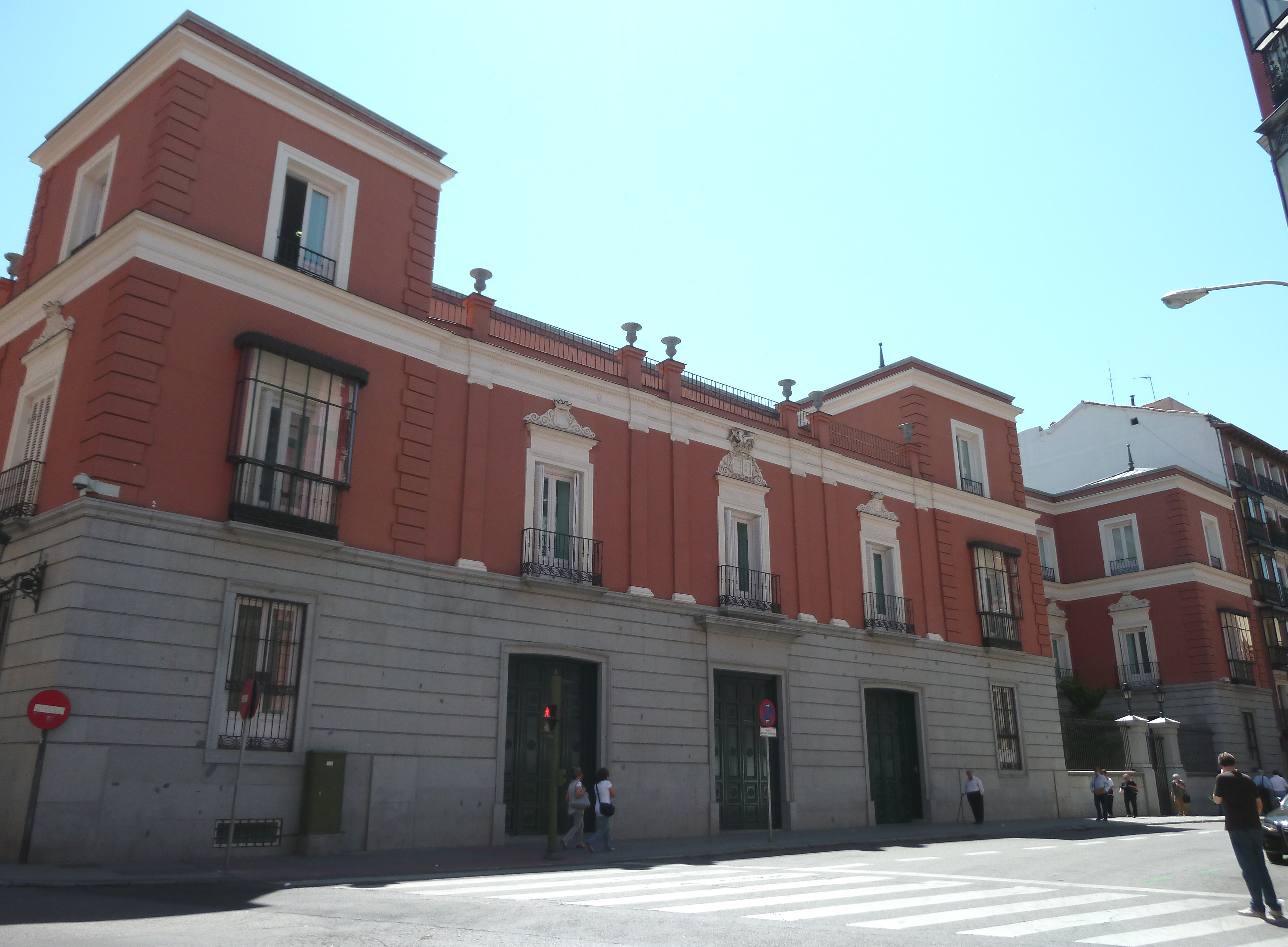 Façade of Viana Palace in Madrid (Spain).